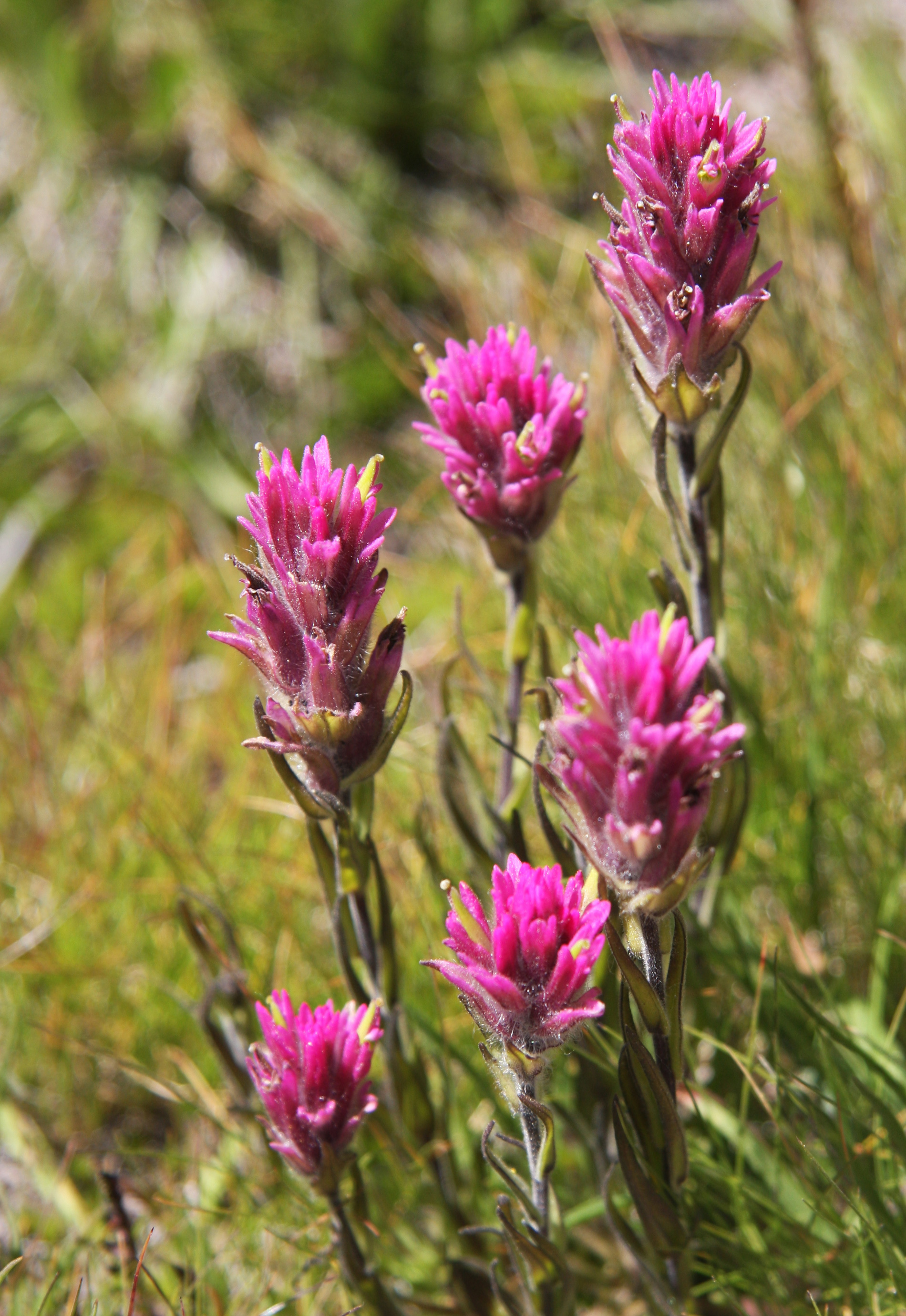 Meadow paintbrush (Castilleja lemmonii), cluster of plants. At 10,200ft by Summit Lake, Hoover Wilderness, Sierra Nevada USA.